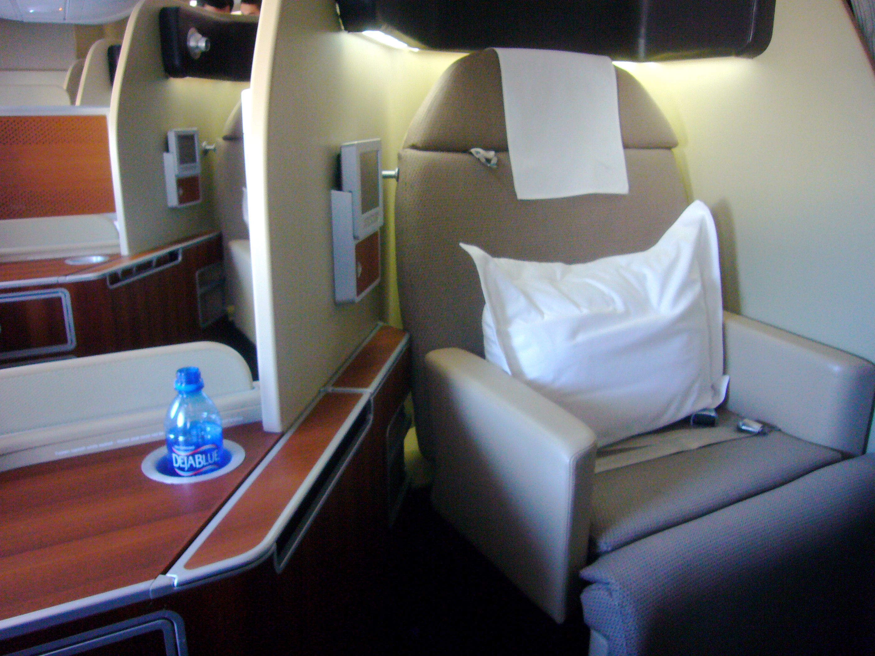 QF First